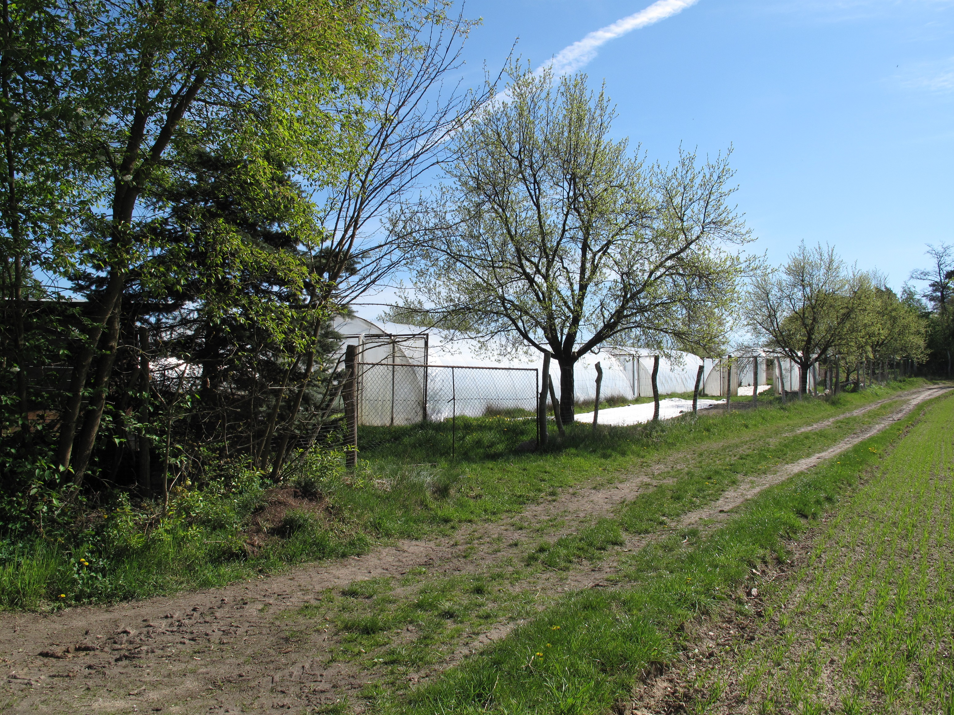 Gardening of the „Hof Marienhöhe“ in April 2014. Marienhöhe is a part (settlement, estate; german: Wohnplatz) and organic farm of Bad Saarow, District Oder-Spree, Brandenburg, Germany. The place was established in 1880 as folwark of the manor Saarow. Since 1928 the „Hof Marienhöhe“ works on the biodynamic agriculture-method (Demeter international) and is considered to be the oldest farm working with this method in Germany.